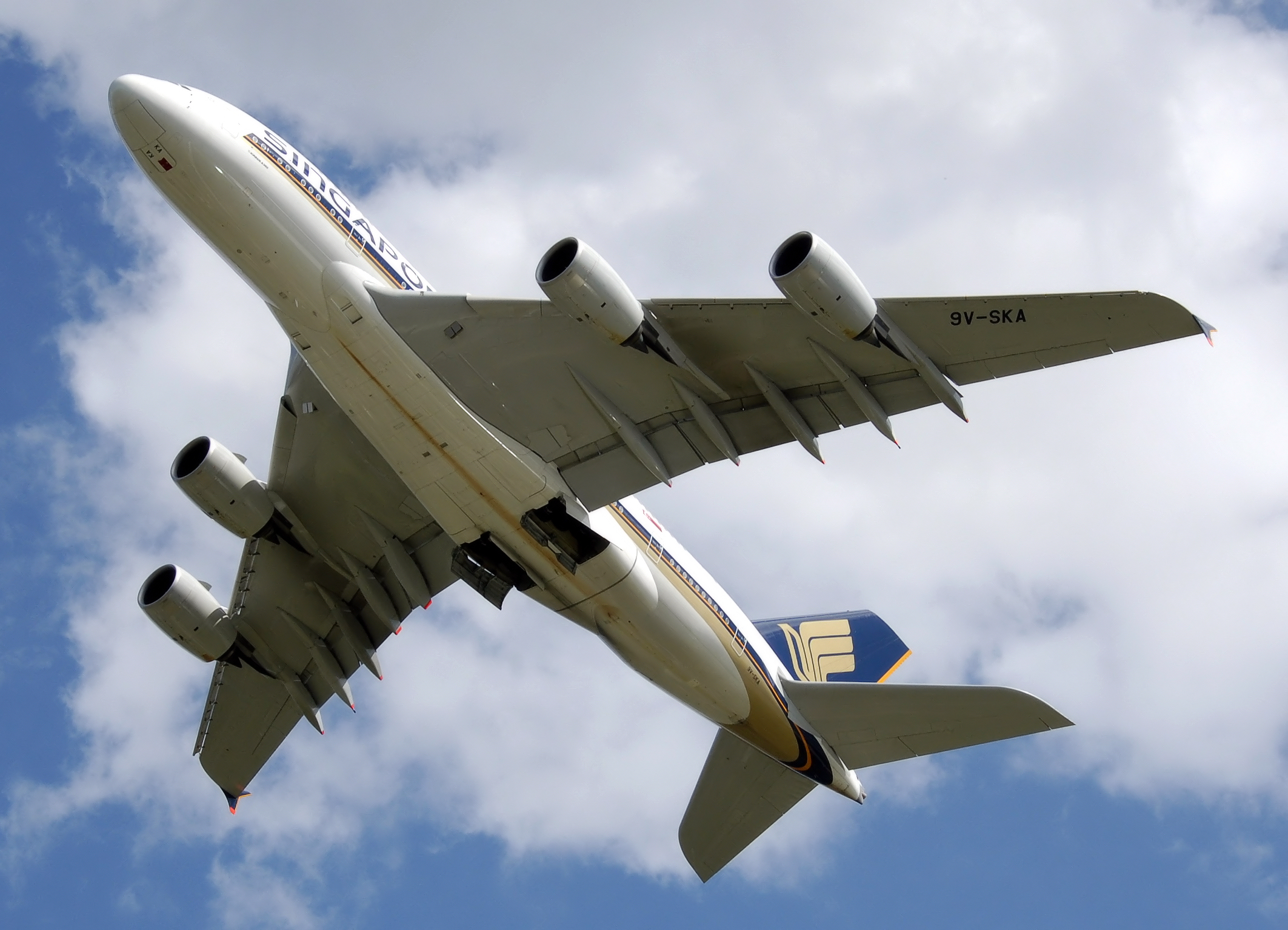 Singapore Airlines Airbus A380 (9V-SKA) takes off from London Heathrow Airport. The undercarriages are still retracting.